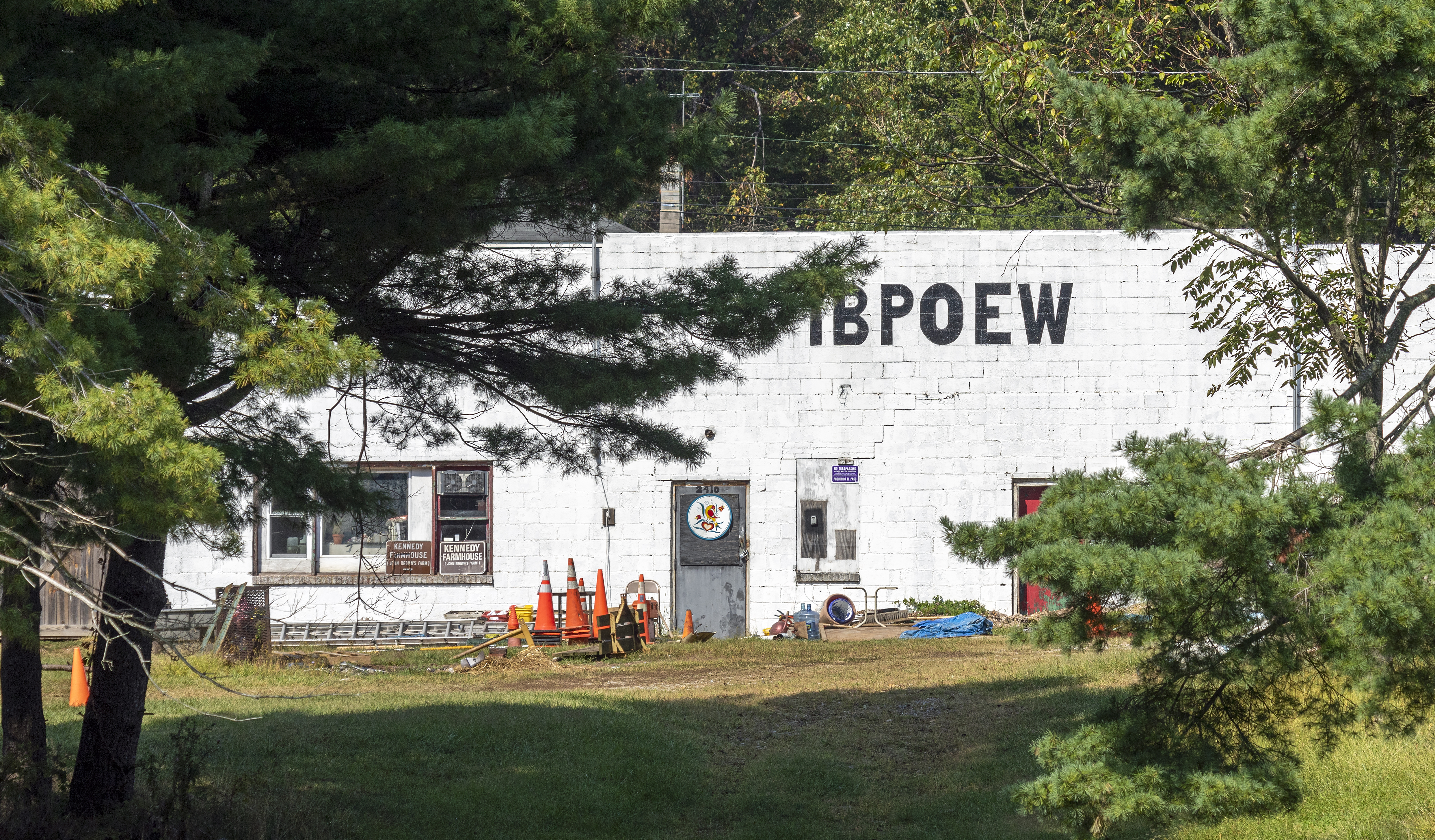 The International Benevolent Protective Order of the Elks of the World meeting hall at the Kennedy Farm, from which John Brown organized his raid on Harpers Ferry, near Sandy Hook, Maryland, USA